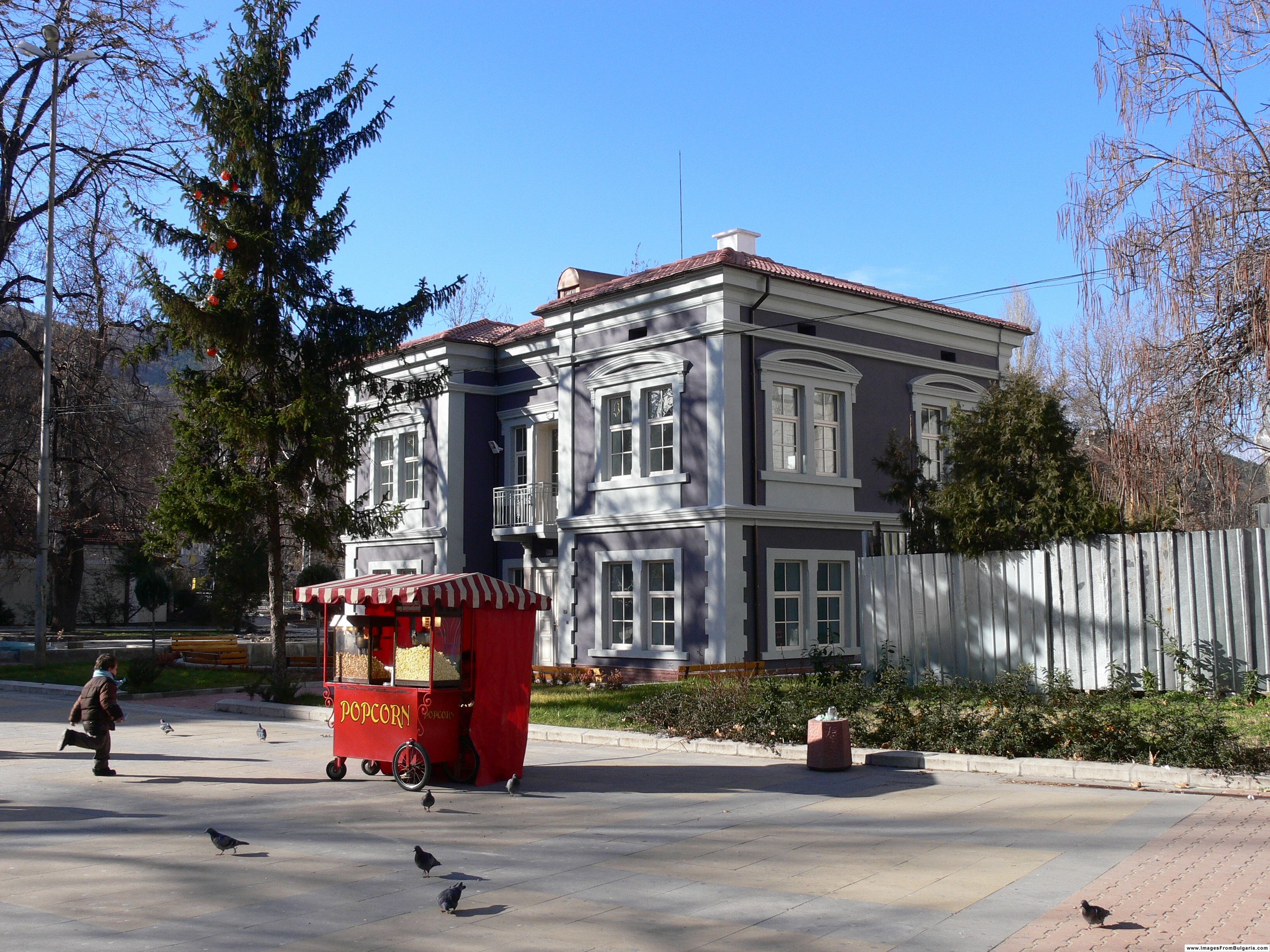 Street scene in Asenovgrad, Bulgaria